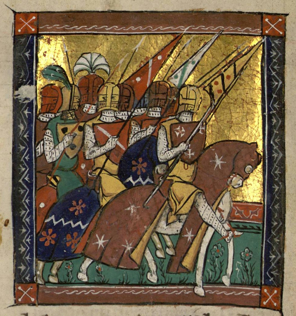 Godfrey of Bouillon leads the army of the First Crusade